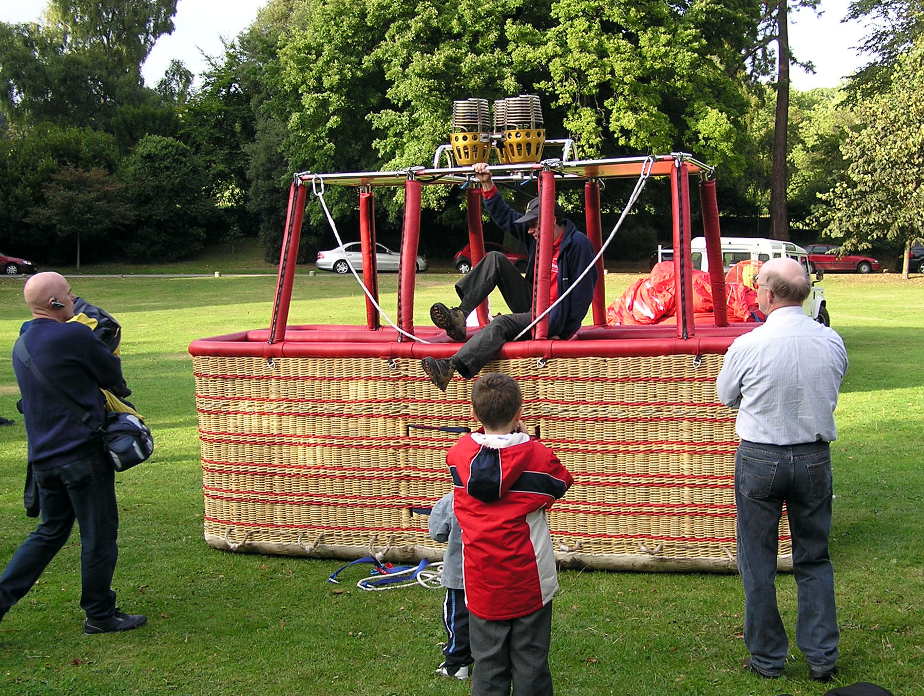 A wicker balloon basket holding 16 passengers. The pilot is climbing out after some pre-flight tests, at Royal Victoria Park, Bath, England. Wicker is used because it can withstand the extreme stresses during the landing of the balloon, without breaking. The three coils form part of the propane burner system that generates the hot air for flight. Photographed by Adrian Pingstone on 21st September 2005 and placed in the public domain.